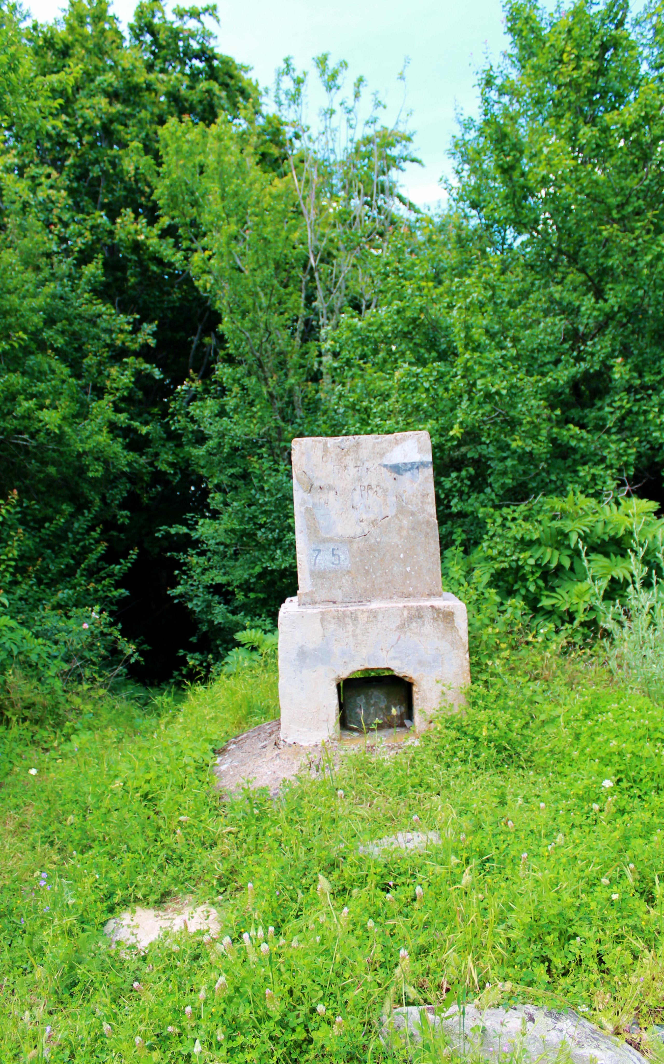 Golyamo Gradishte Peak Strandzha Bulgaria